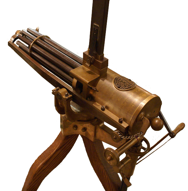 Gatling